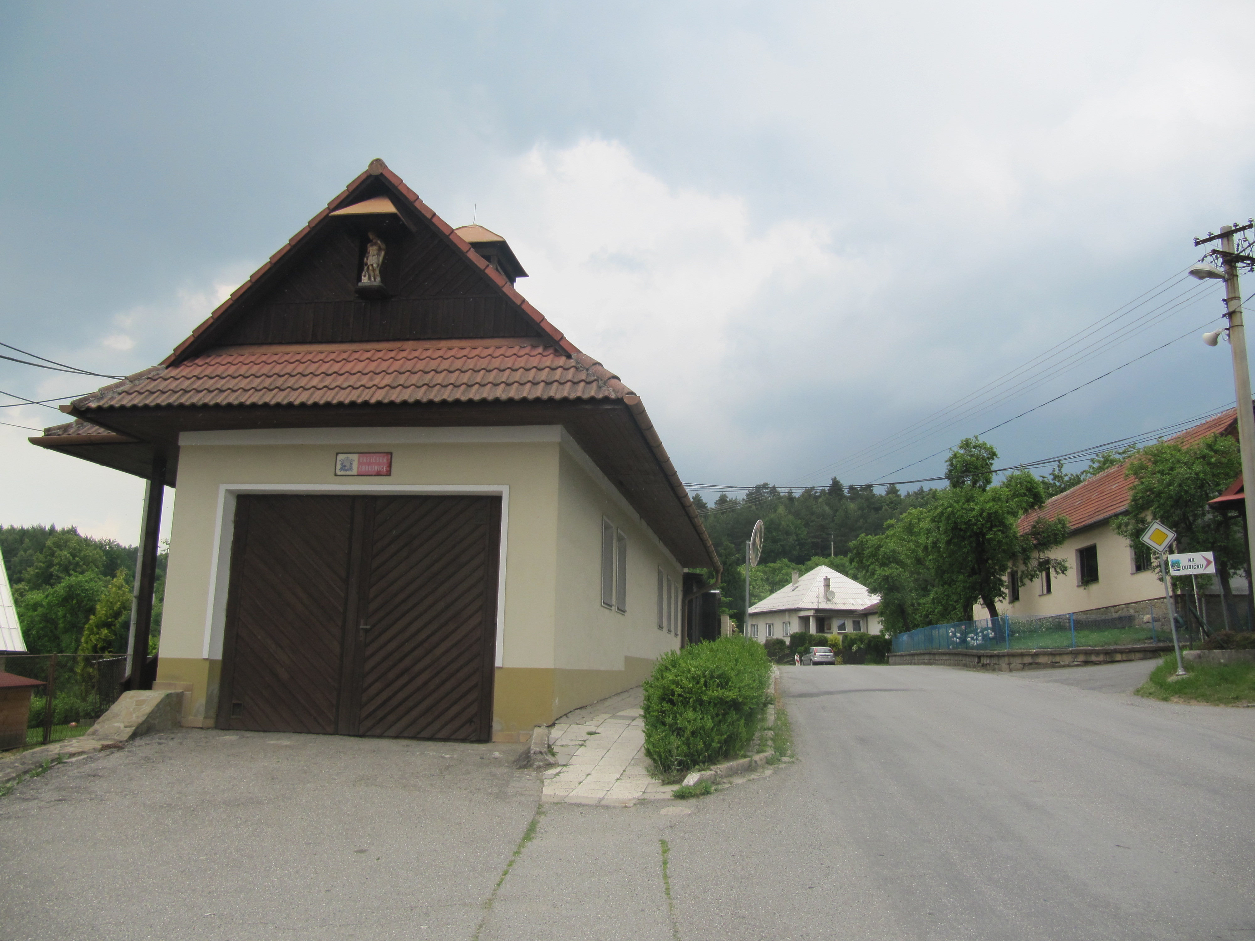 Hrobice in Zlín District, Czech Republic. Firehouse. This photograph was taken within the scope of the third year of the 'Czech Municipalities Photographs' grant.